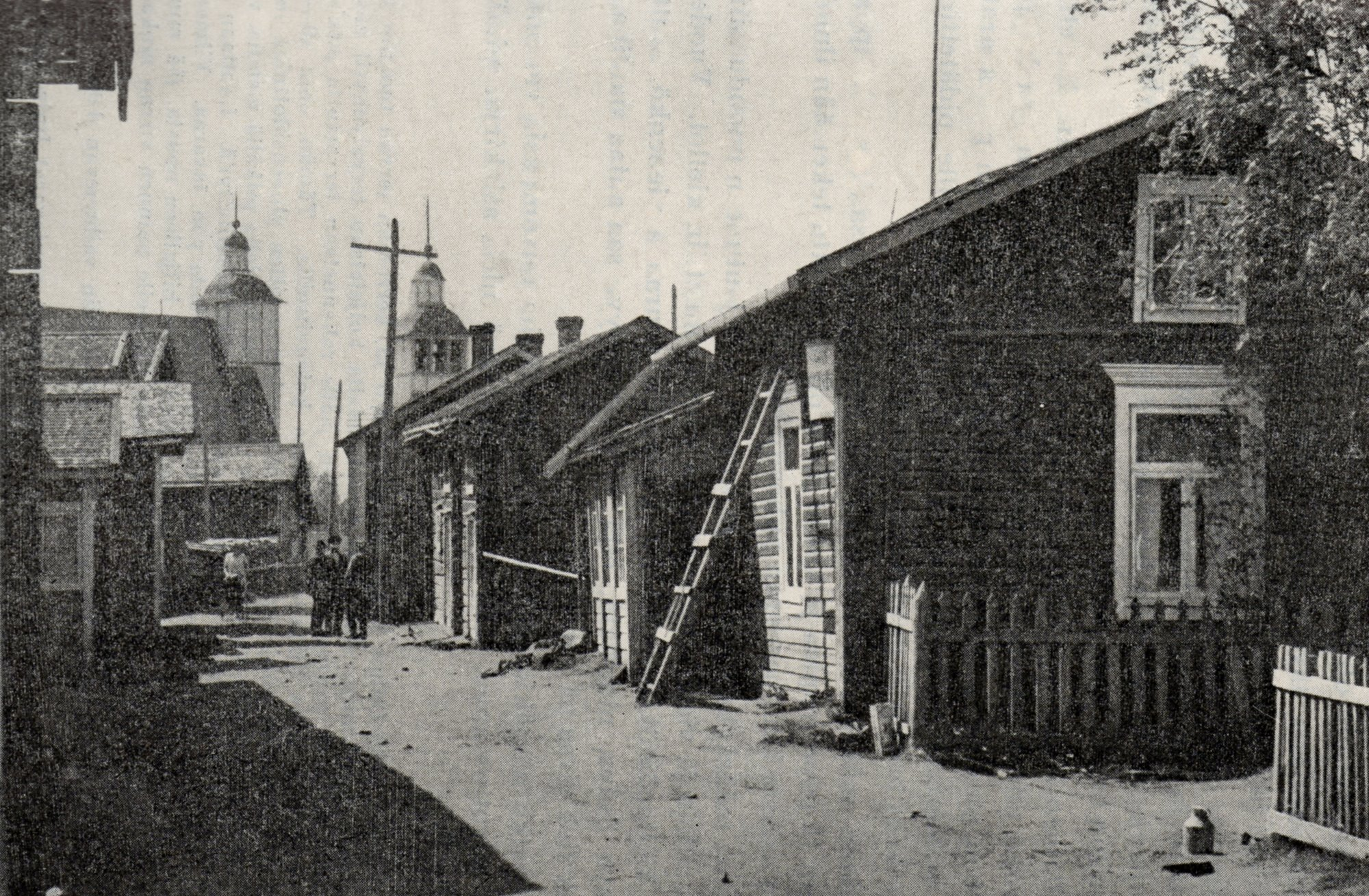 Hamina, the main village of Ii municipality before 1939.